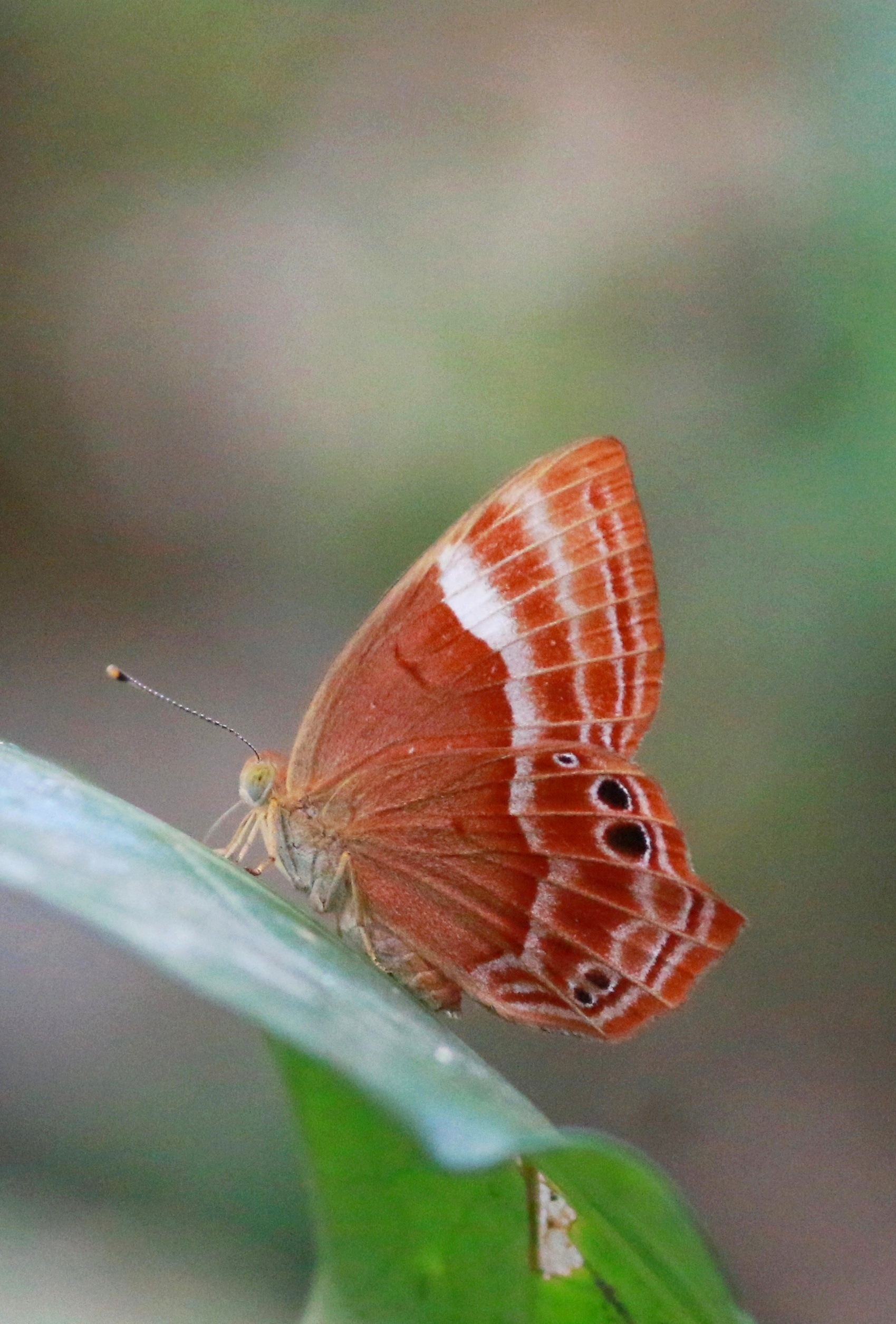 Suffused Double banded judy